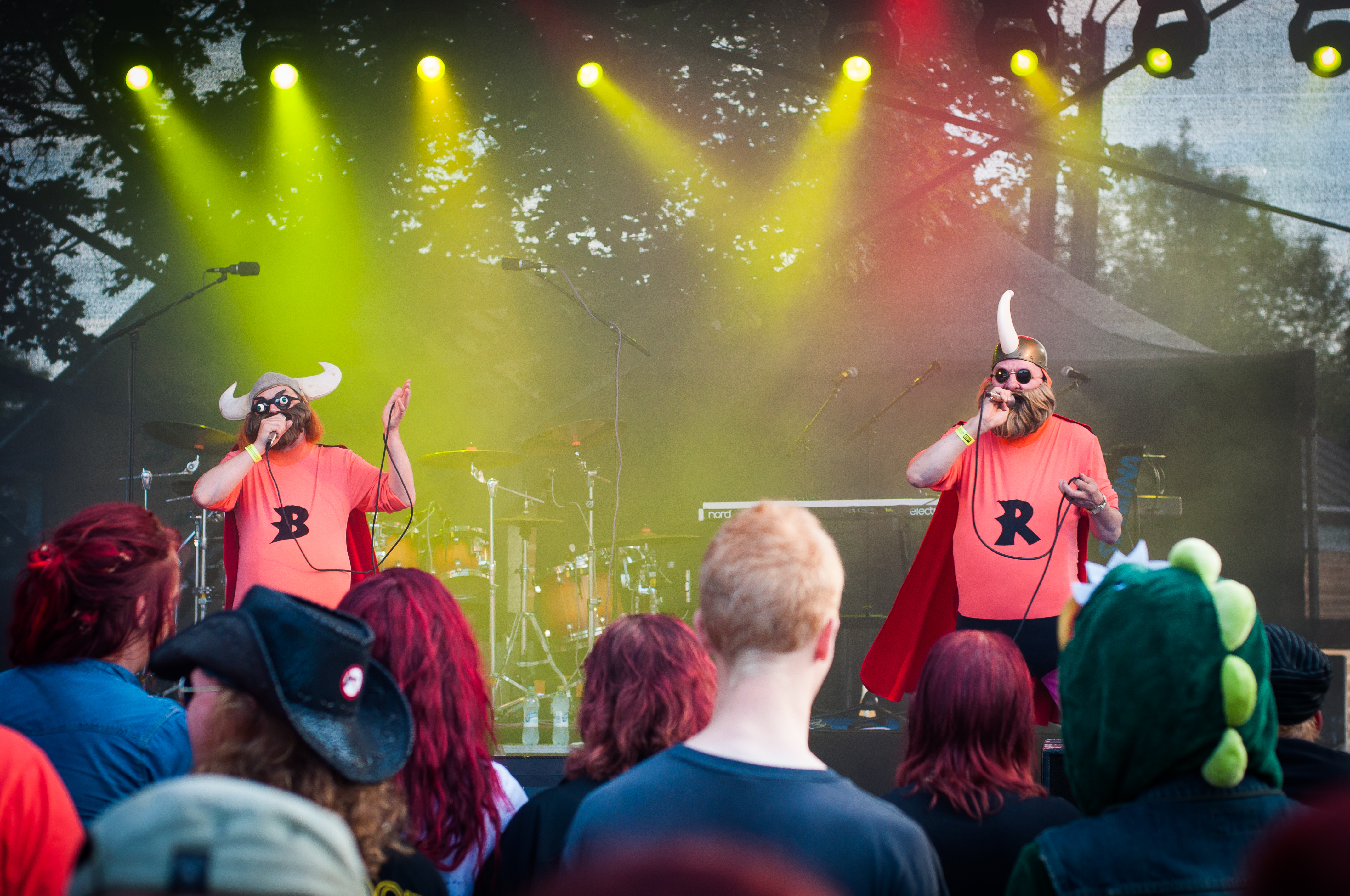 Finnish music act Bat & Ryyd performing at the 2014 Rakuuna Rock festival in Lappeenranta, Finland.